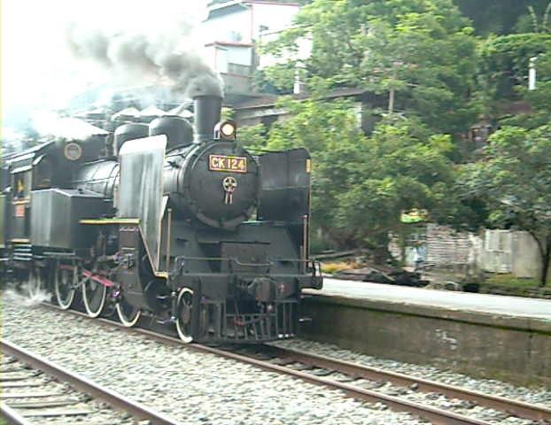 Locomotive CK-124 pit stop, Taiwan Railway, Old Mountain Line, Shengsing Station